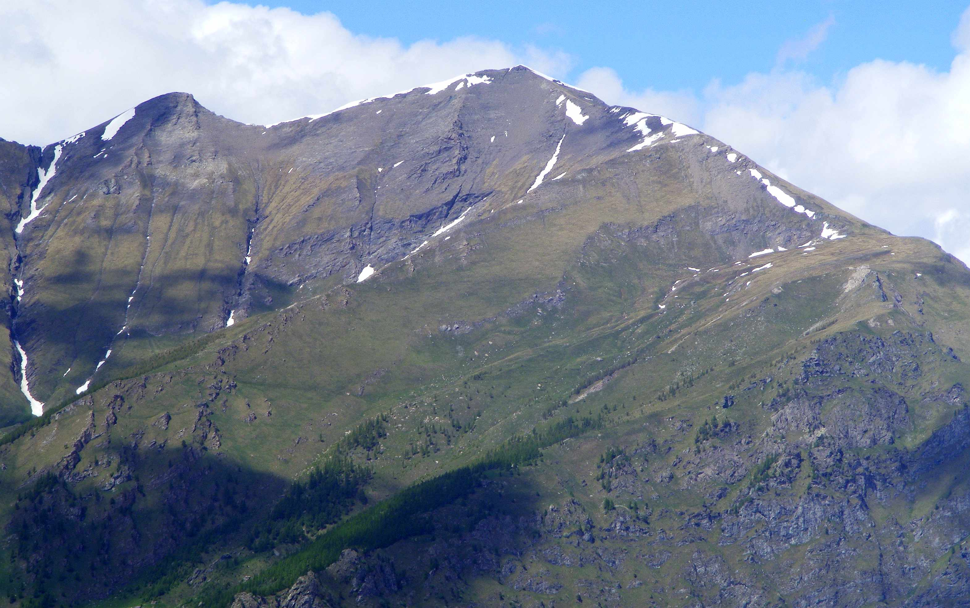 Monte Palon (Graian Alps, TO, Italy) as seen from Monte Fassolino